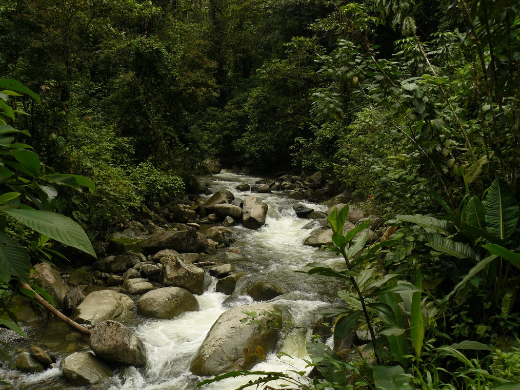 The Anchicaya River before it joins with the Digua River near El Danubio, Valle del Cauca, Colombia. Elevation: 500 MASL